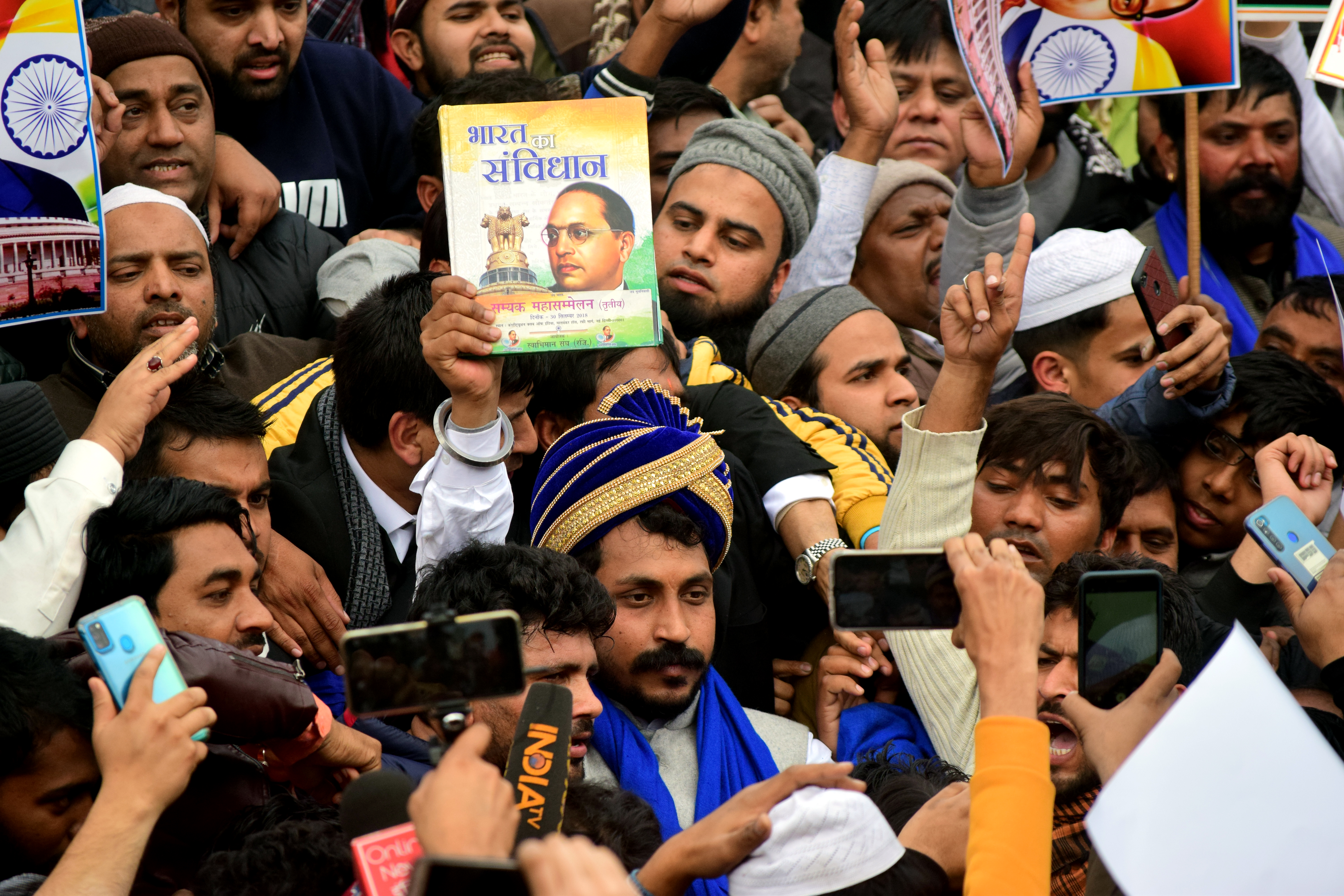 Ambedkarite activist and lawyer Chandrashekhar Azad at Jama Masjid, Delhi, during the anti CAA protests.